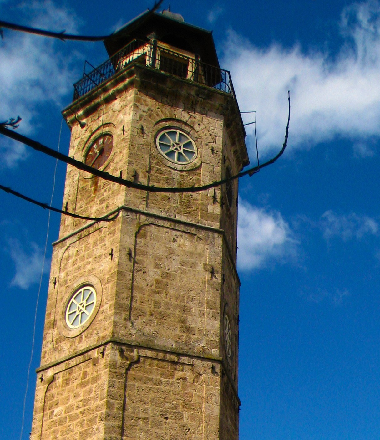 The 25m hogh clock of Naousa